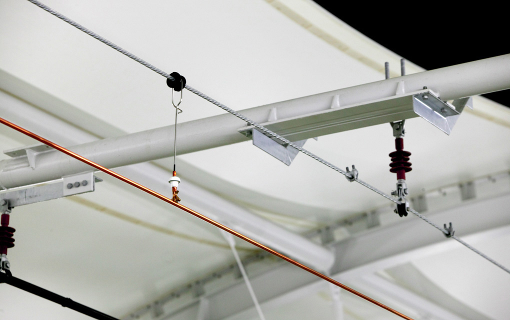 Overhead line of Tokyo Kyuko Electric Railway (1500V DC).